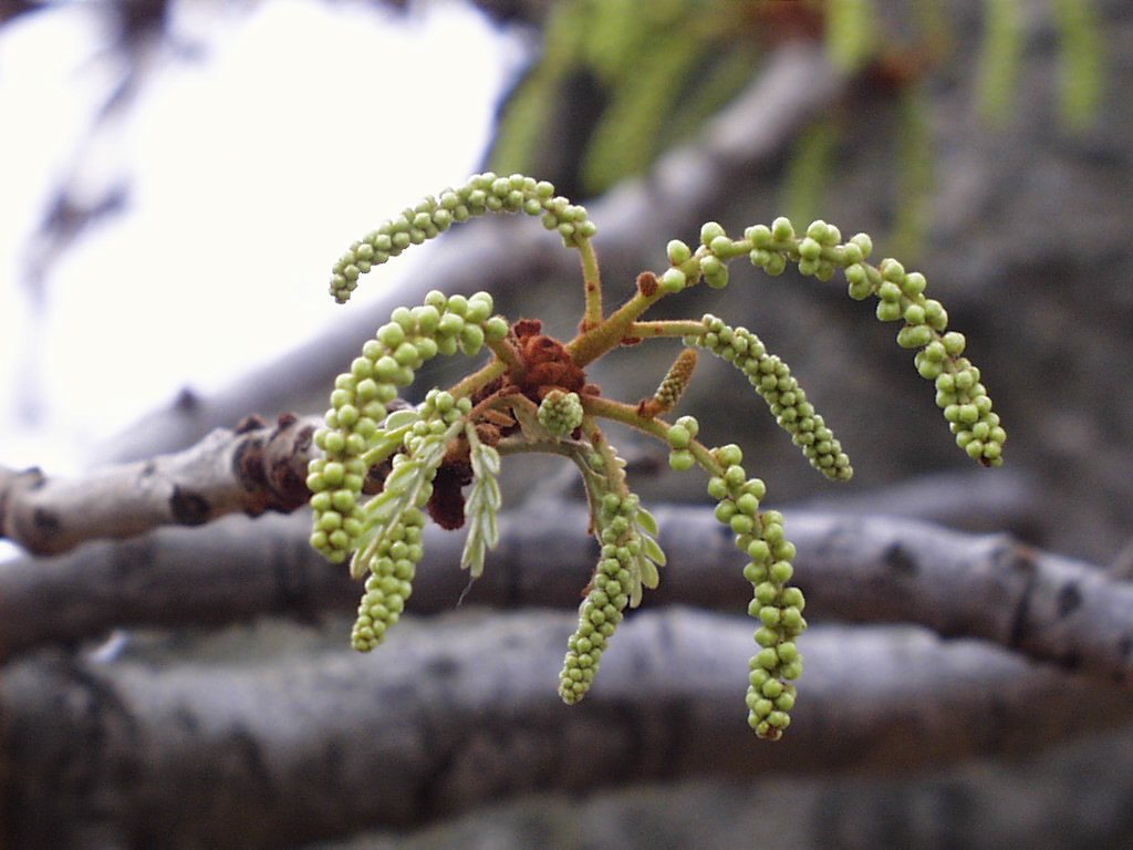 Flower buds of a Wild Syringa in South Africa